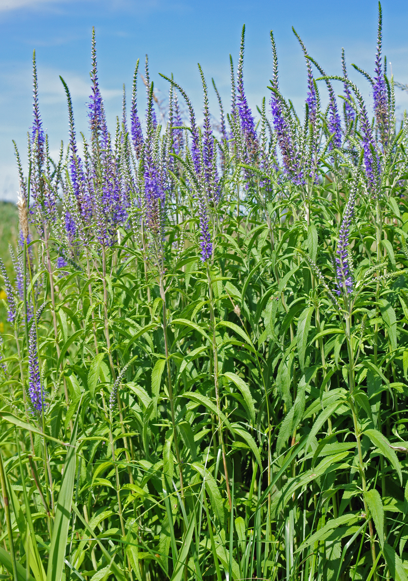 Veronica longifolia ssp. longifolia, also known as Pseudolysimachion longifolium ssp. longifolium. These are wild flowers in their natural habitat.